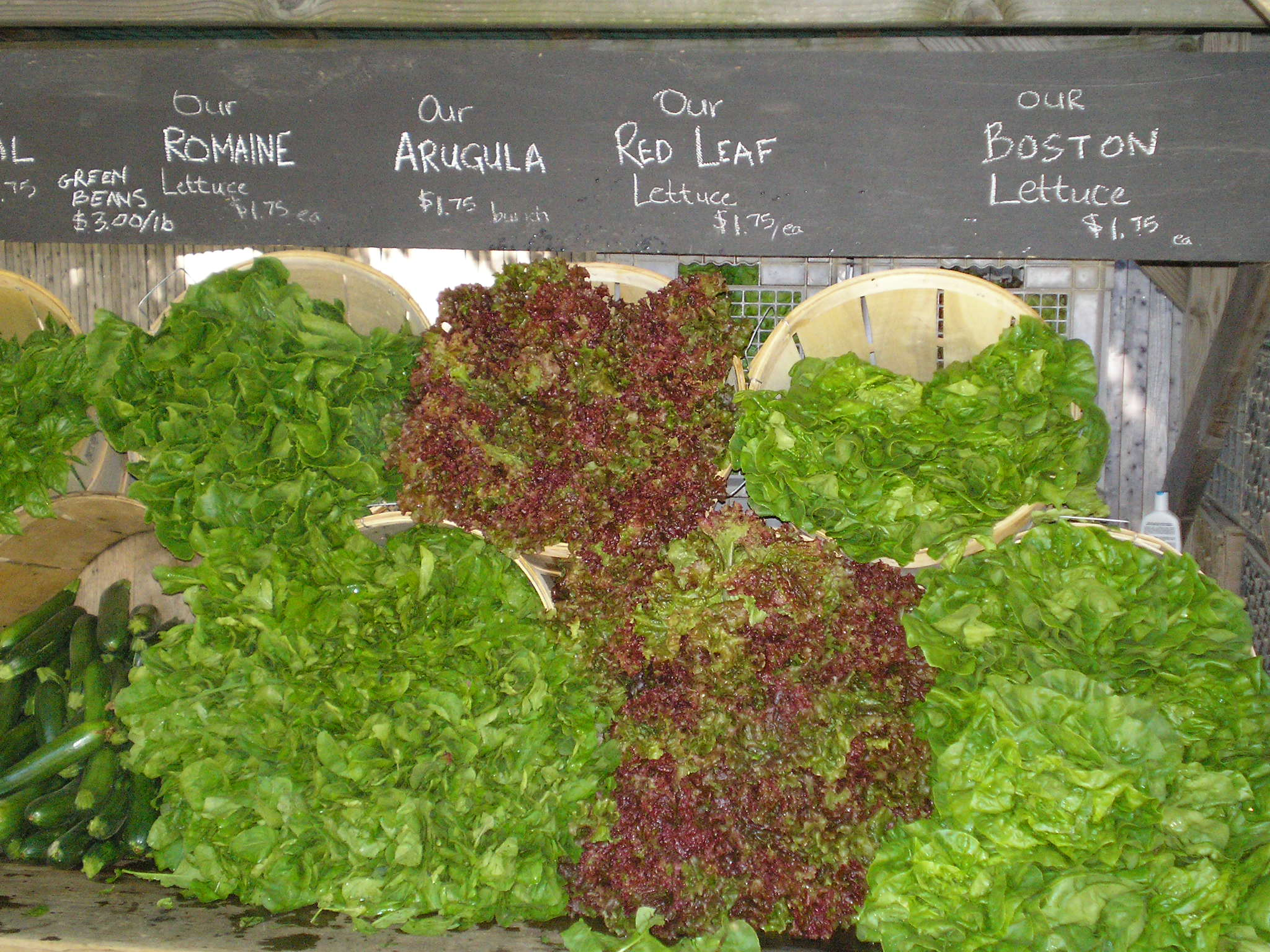 Lettuce Cultivars by David Shankbone, New York City